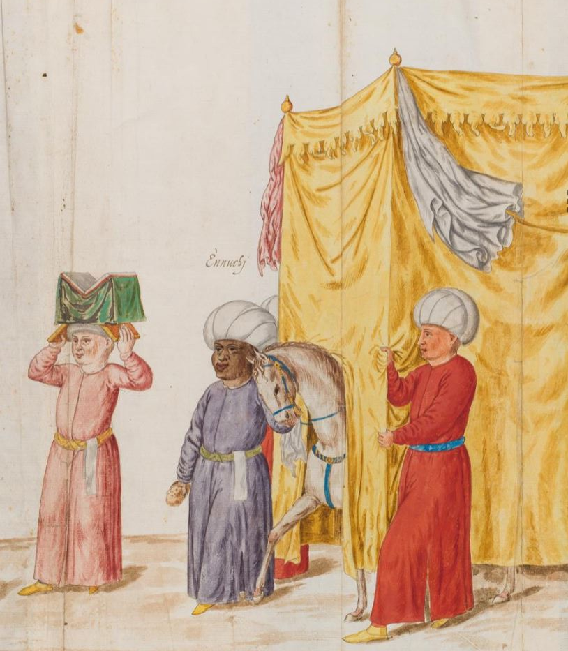 Illustration from the Turkish Costume Book by Lambert de Vos (Bremen, Staats- und Universitätsbibliothek, ms. Or. 9)